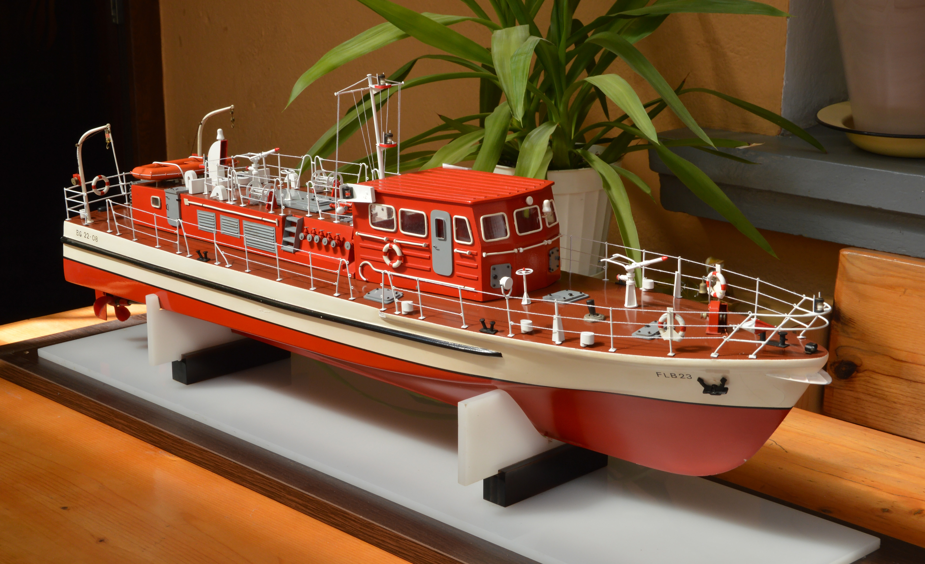 A scale (1:30) model of German fireboat type FLB 23. Built circa 1985 by Hristo Stefanov Boevski. Won several medals at national scale model championships.